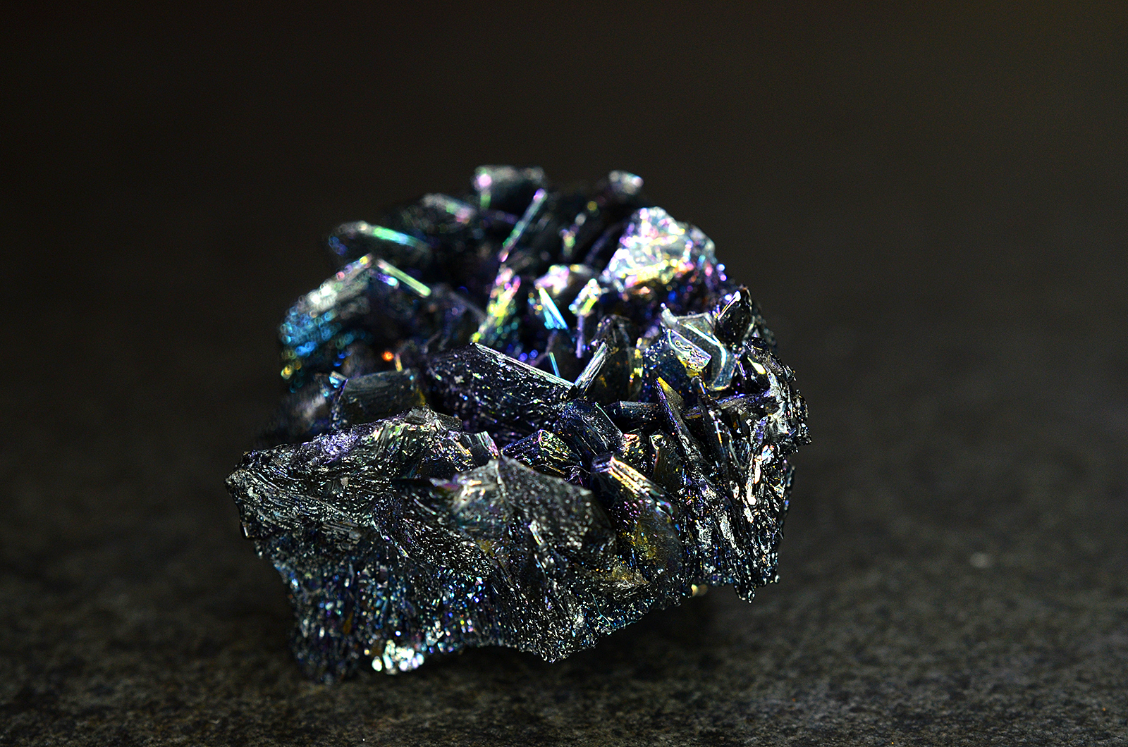 Silicon carbide